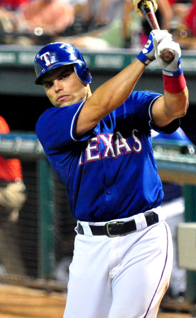 Iván Rodríguez, of the Texas Rangers AL baseball team.